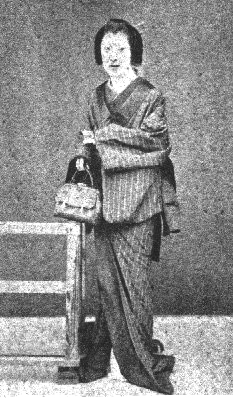 Hanshirō Iwai VIII (1829–82)